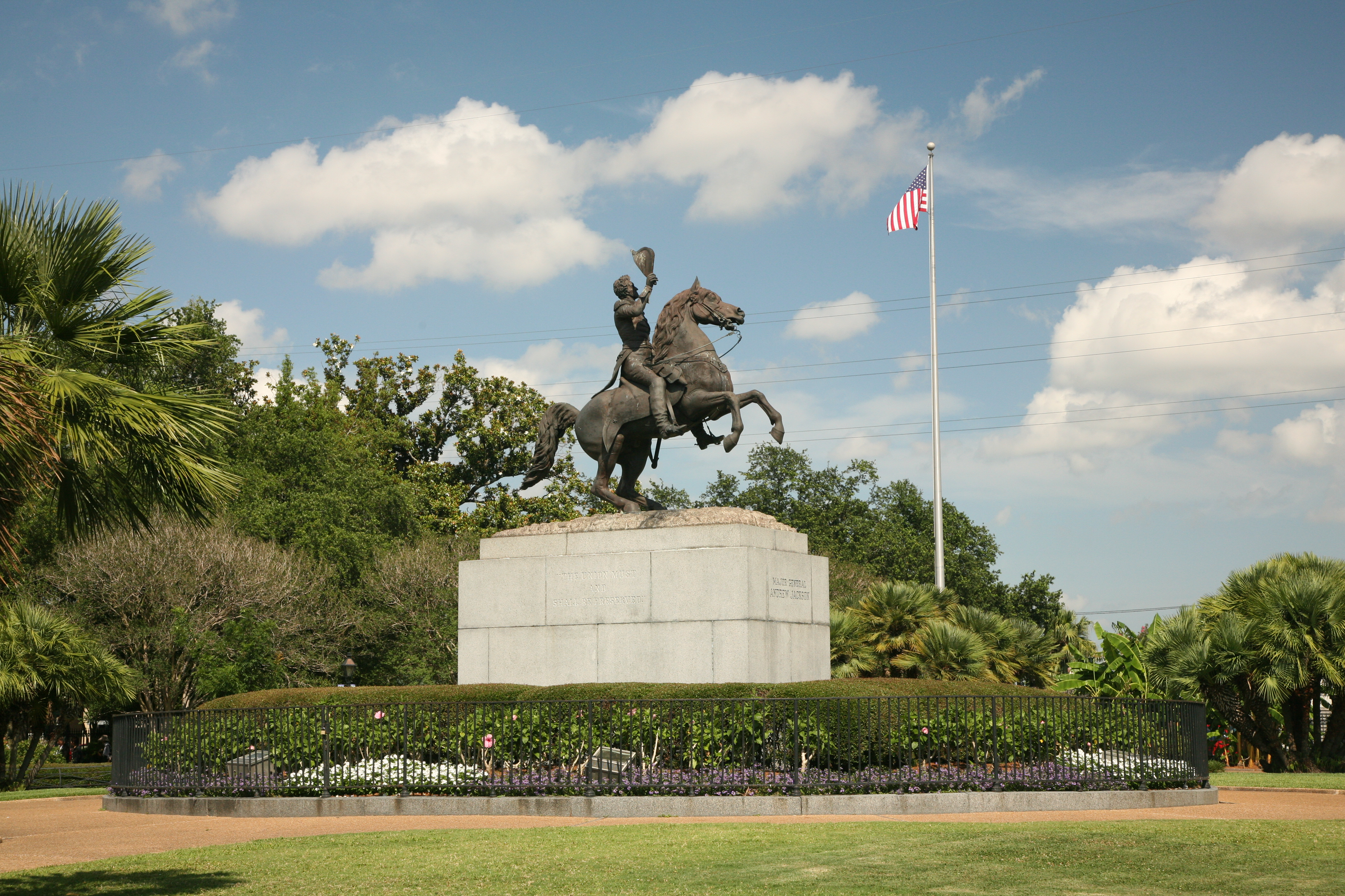 Statue of Andrew Jackson on Jackson Square in New Orleans